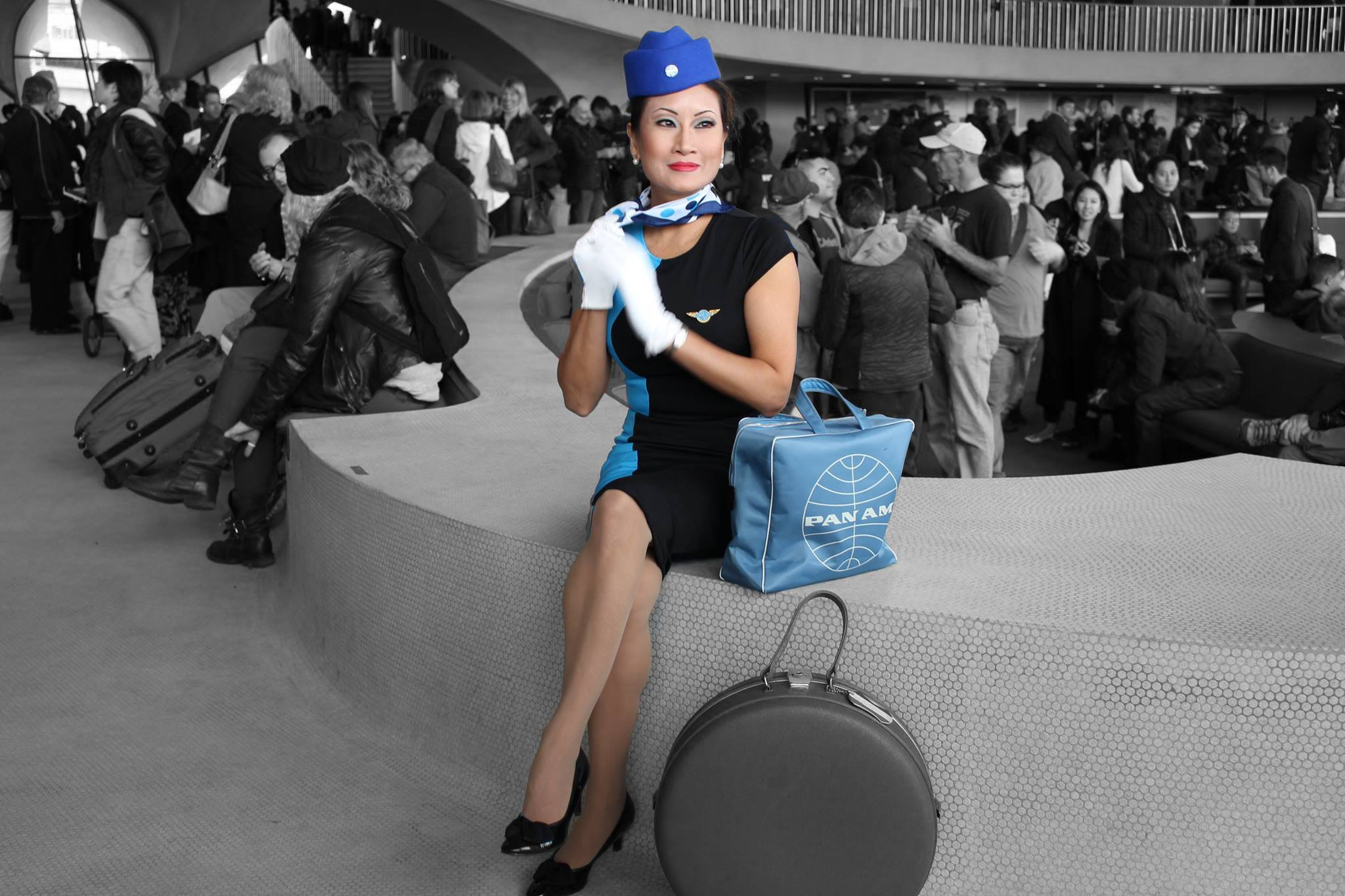 Pan Am stewardess model in the TWA Flight Center at JFK airport during OHNY weekend. Site: TWA Flight Center